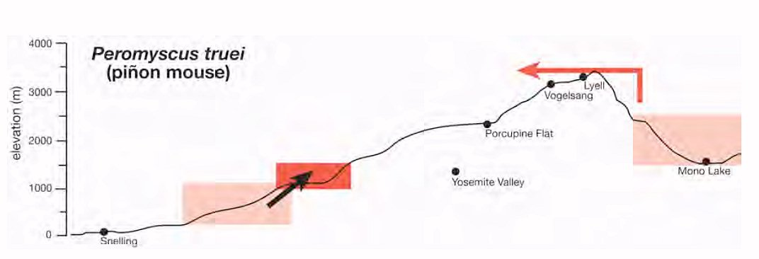 A simple diagram showing the change of elevation/range of the pinyon mouse.